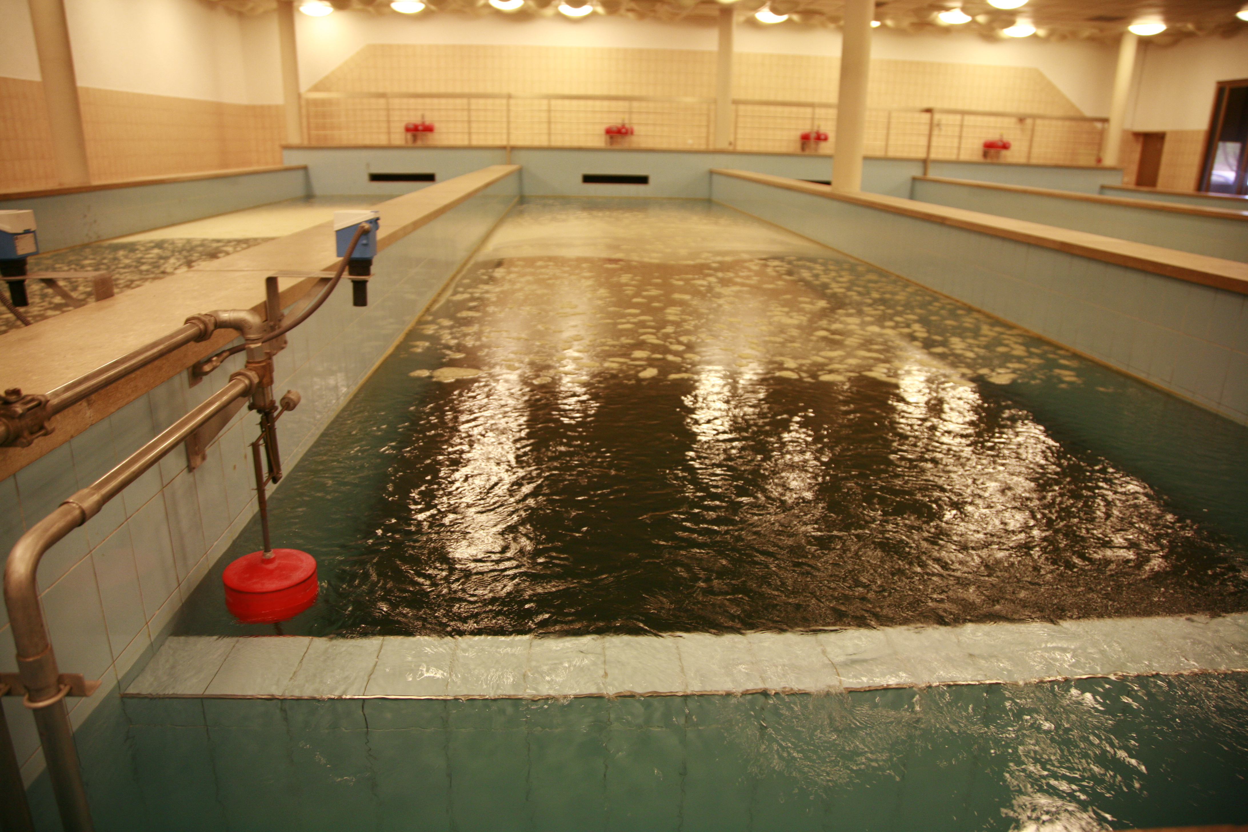 Water purification systems a Bret lake, Switzerland